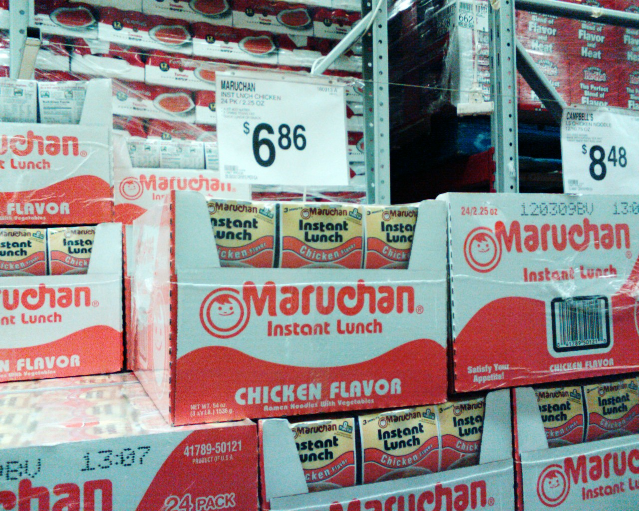 Maruchan Instant Lunch being sold by the case at an American warehouse club store.